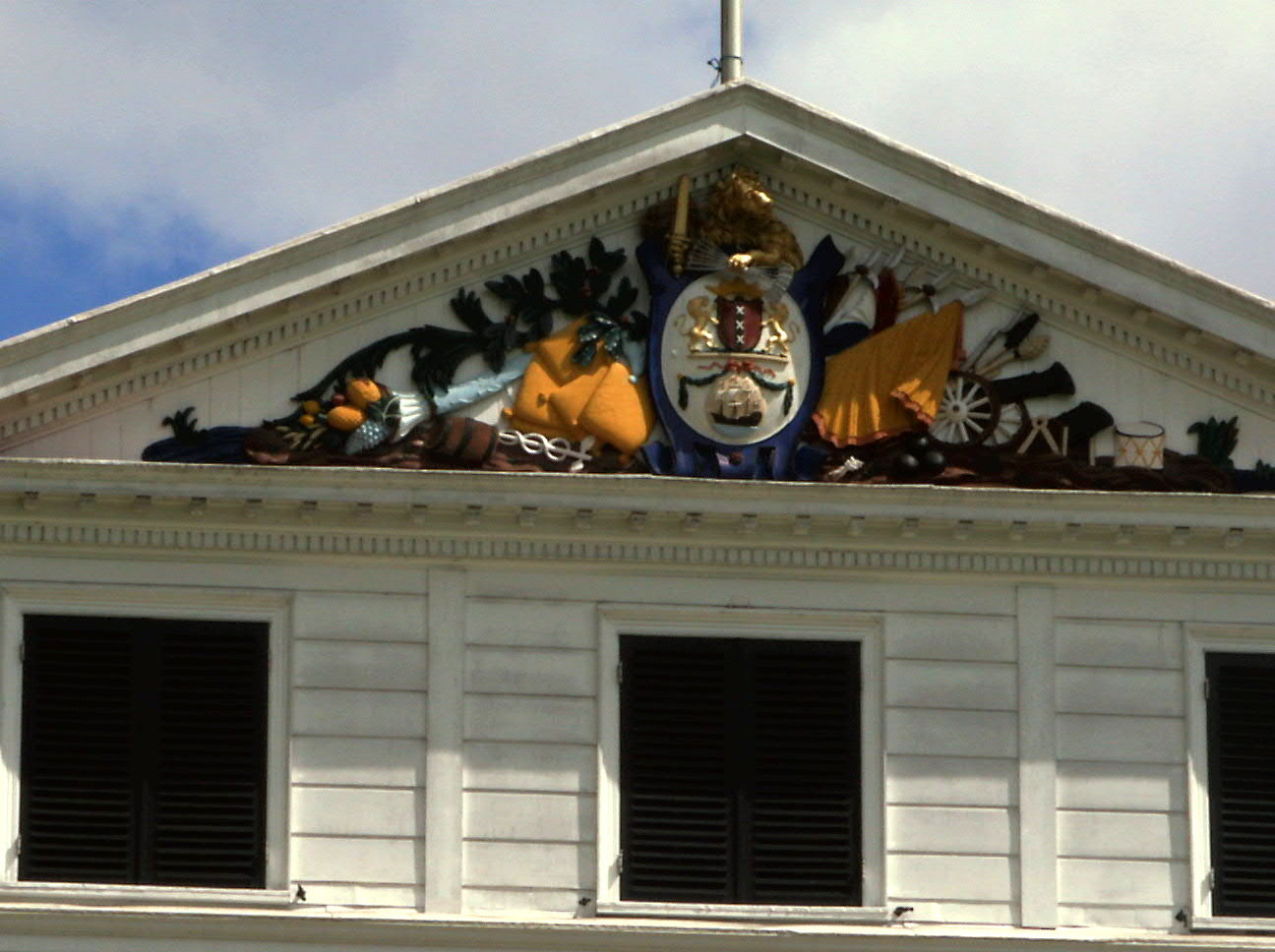 Coats of arms of Societeit from Suriname (1683-1795), presidentenpalace Paramaribo